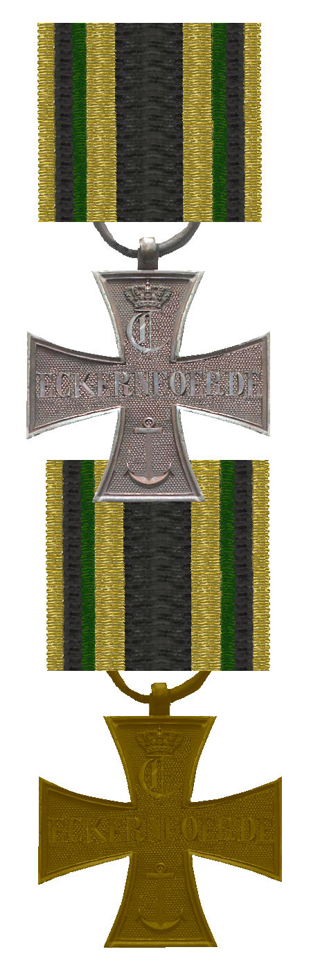 Erinnerungskreuz für Eckernförde Eckernförde-Cross Saxe-Coburg and Gotha 1851